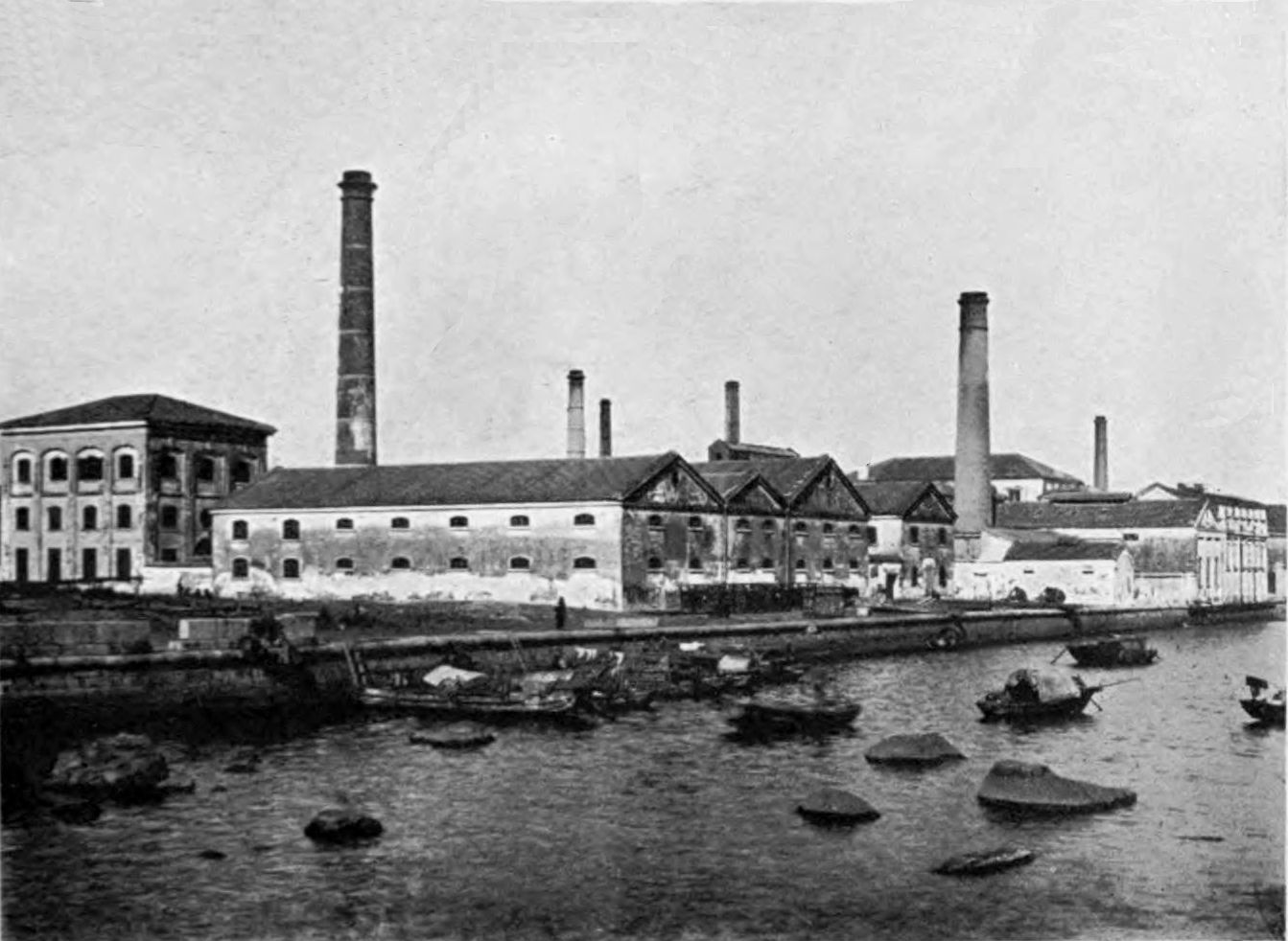 Hongkong Ice Company Ltd.